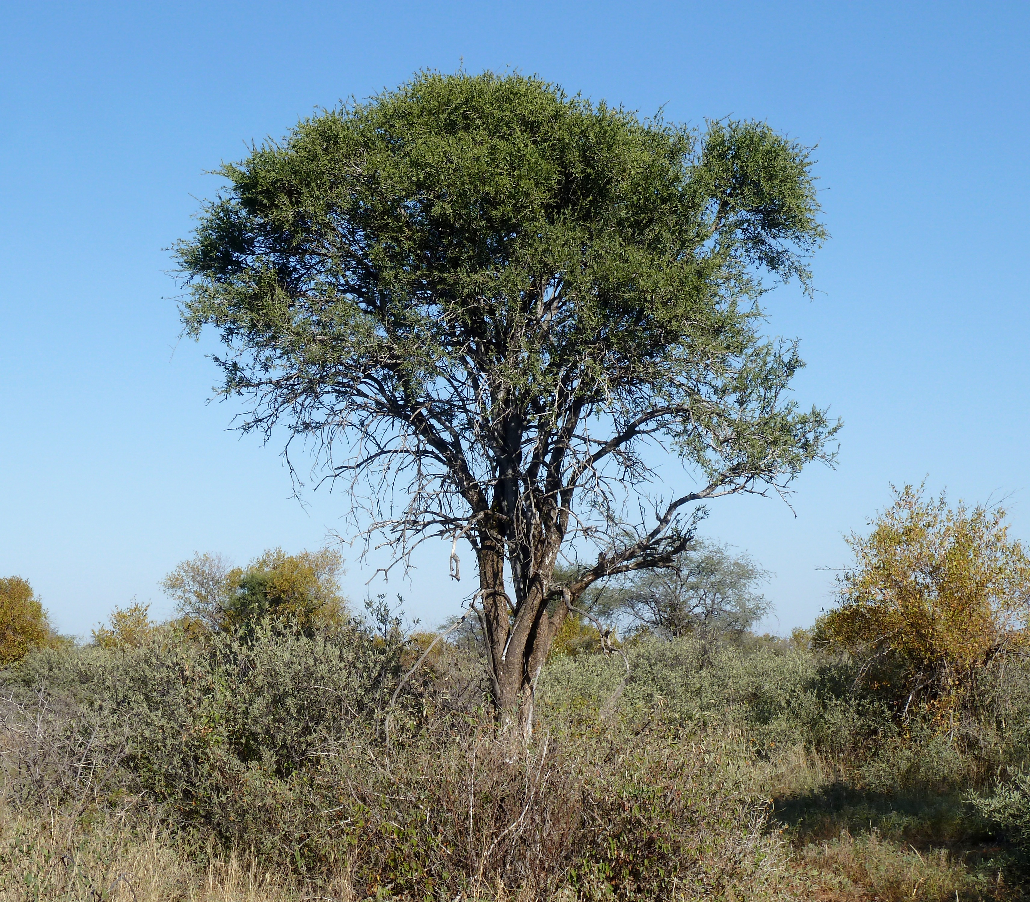 Shepherd's tree near Steenbokpan, Limpopo, South Africa